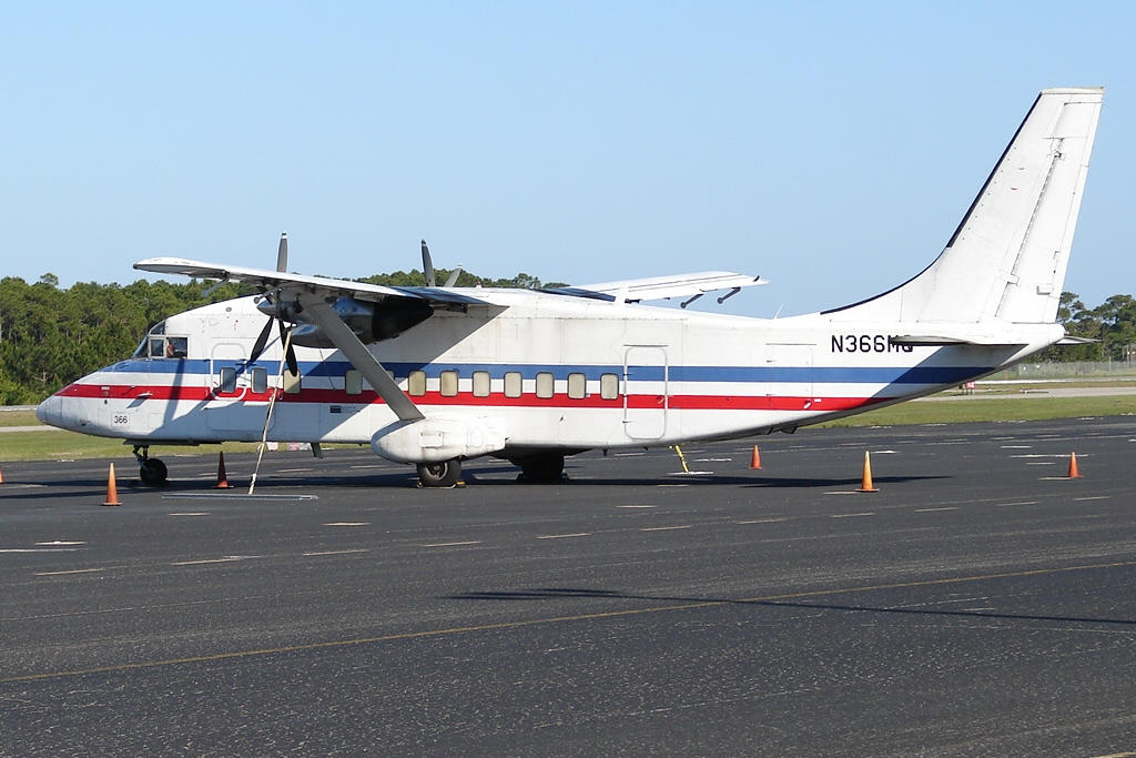 Caught this old American Eagle (Simmons Airlines) Shorts 360 at the Destin-Fort Walton Beach Airport (KDTS) in Florida while visiting some friends! What a lucky catch, to think years ago she was flying in and out of ORD, now she spends her days hauling freight instead of passengers.